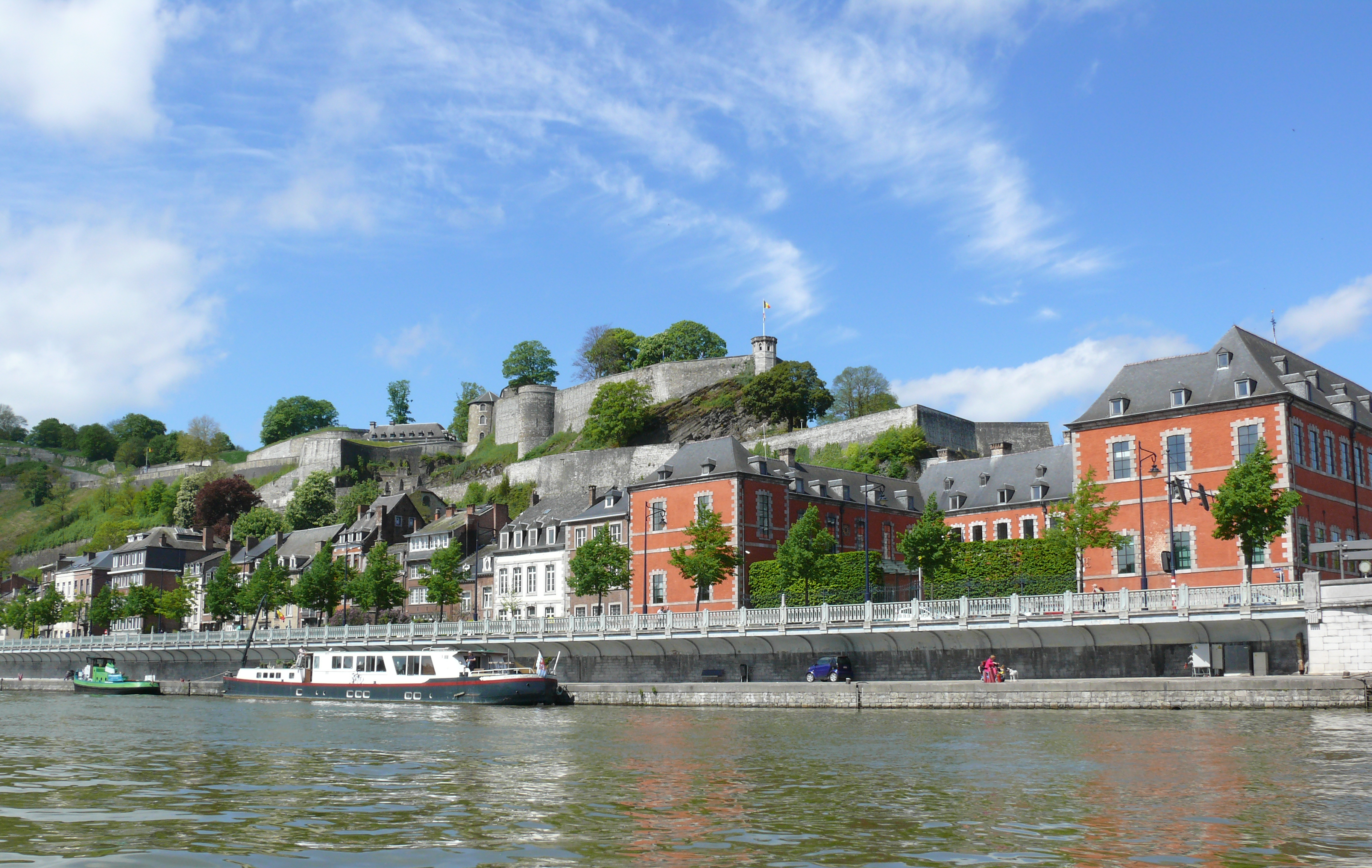 The Citadel of Namur